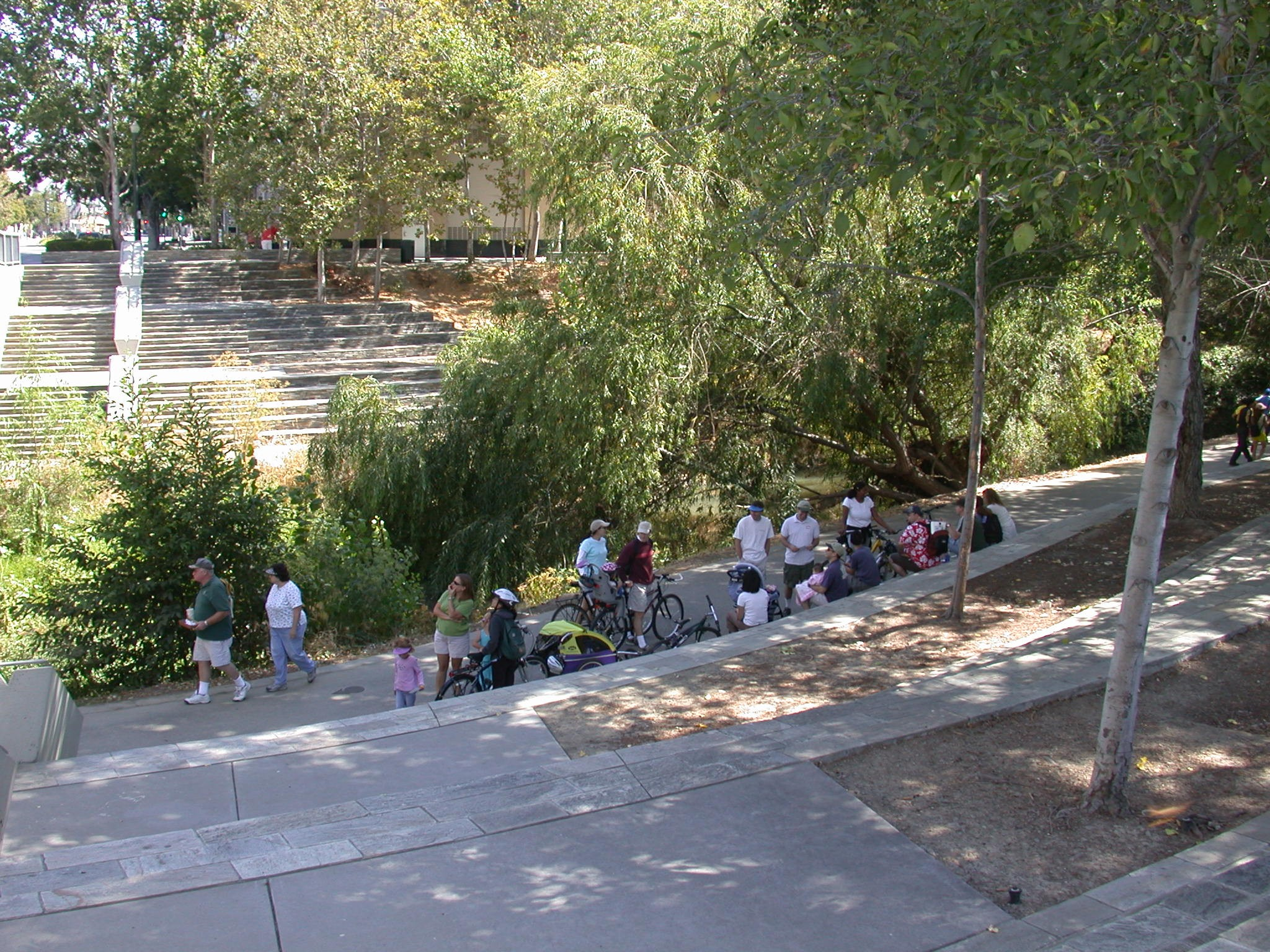 Visitors explore the newly opened Guadalupe River Park and Gardens in San José, California. Photograph taken by Dvortygirl 10 September 2005.